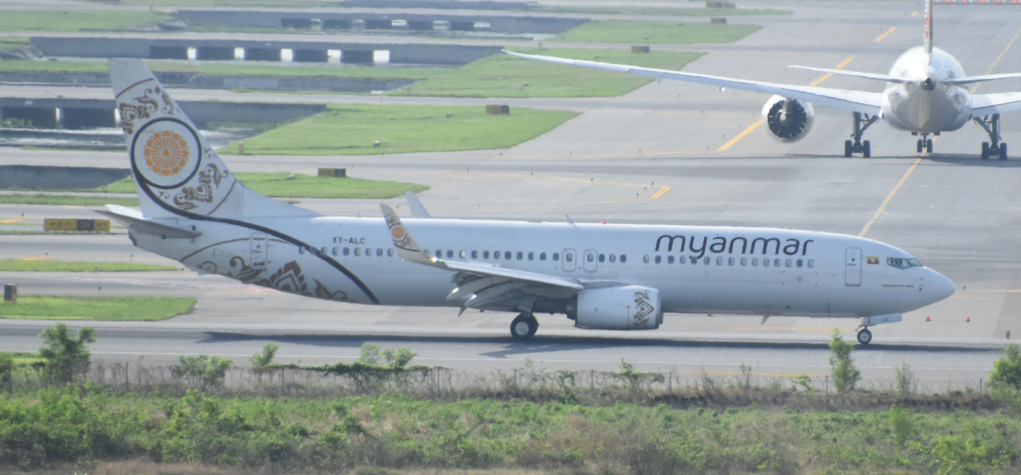 Boeing 737/8 of Myanmar National Airlines arriving rwy.19R at Bangkok-BKK, Thailand 07/06/16.